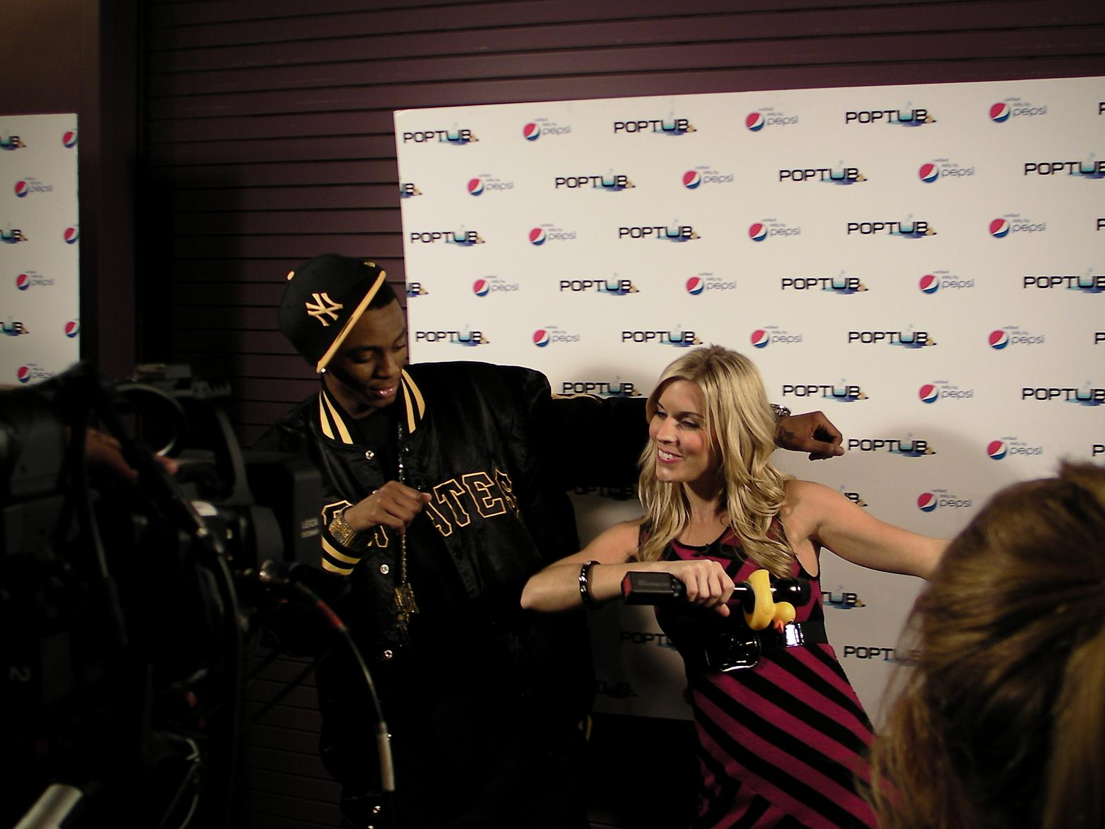 Soulja Boy Tell 'Em on PopTub